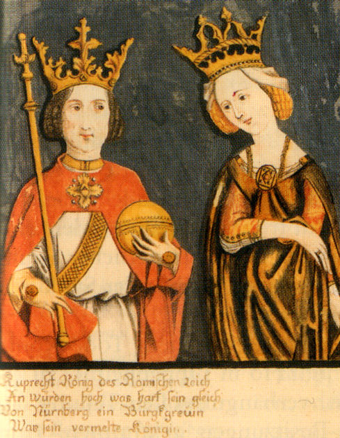 Ruprecht III. Elector of the Palatinate from 1398 to 1410 and king of the Holy Roman Empire, miniature